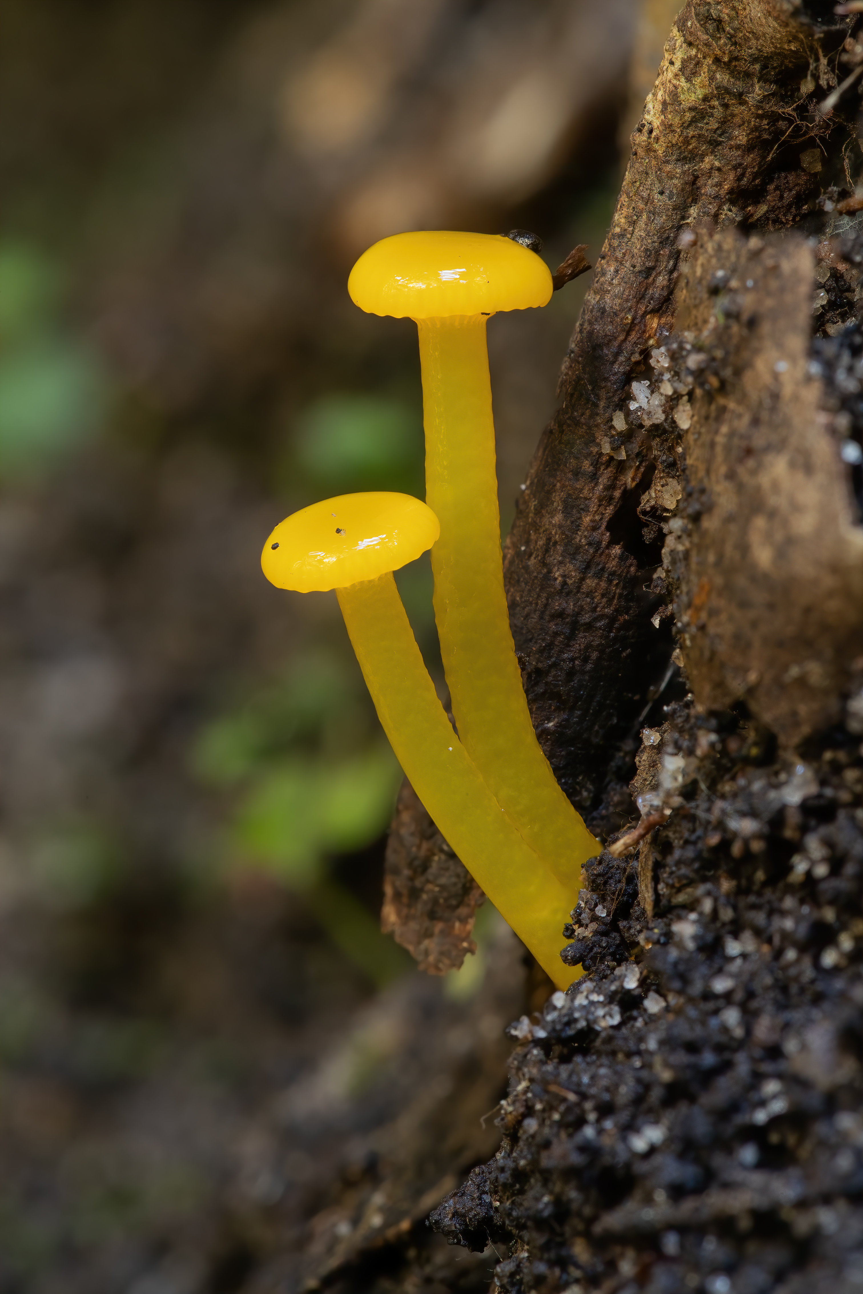 Gliophorus chromolimoneus, Ferndale Park, Sydney, New South Wales, Australia